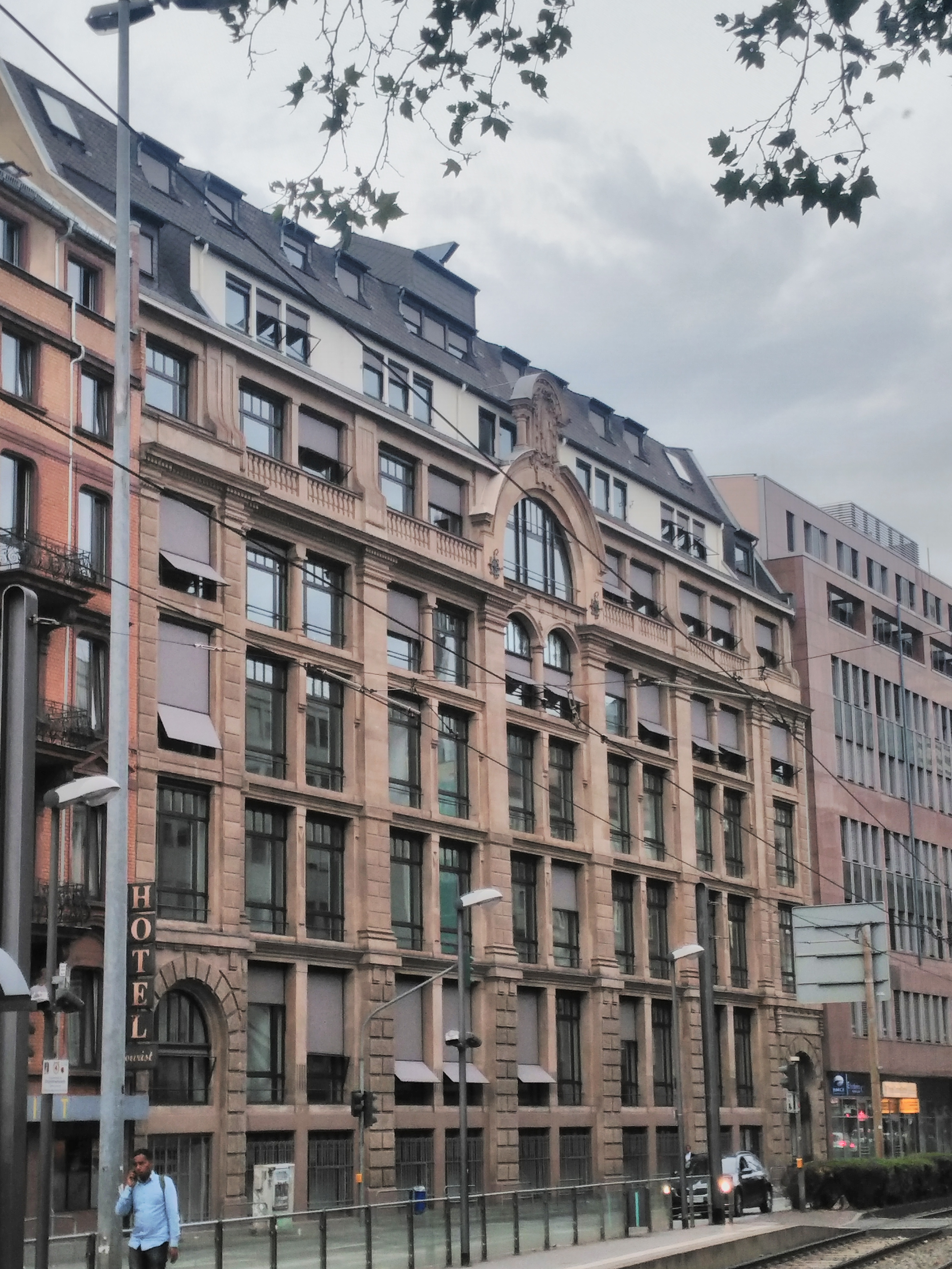 PRIF building.